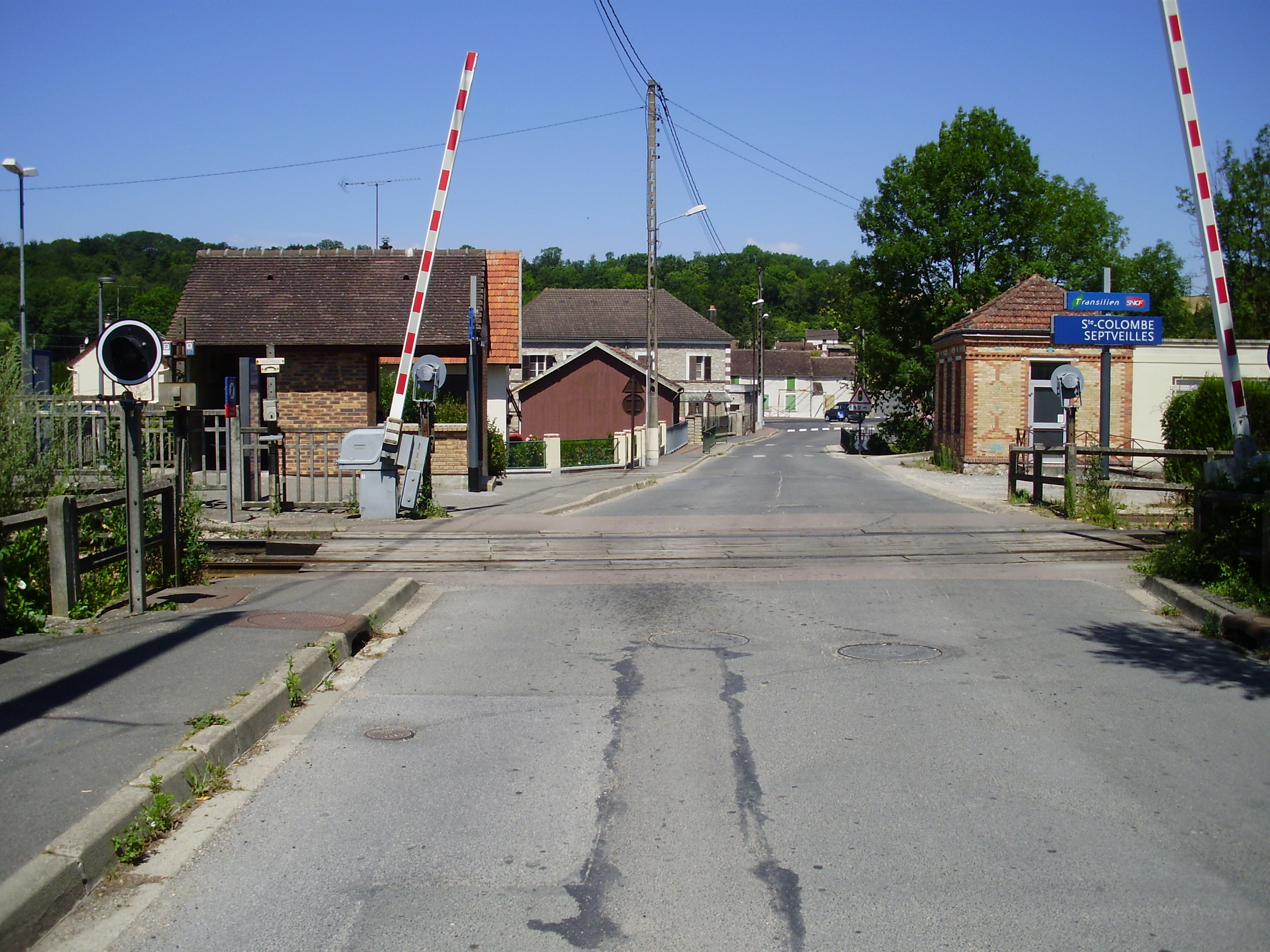 Sainte-Colombe - Septveilles station, in Sainte-Colombe, Seine-et-Marne, France (level crossing)